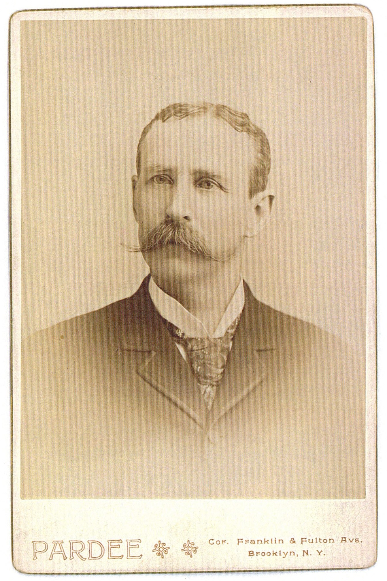 photo of John Kenny, undated, taken in Brooklyn